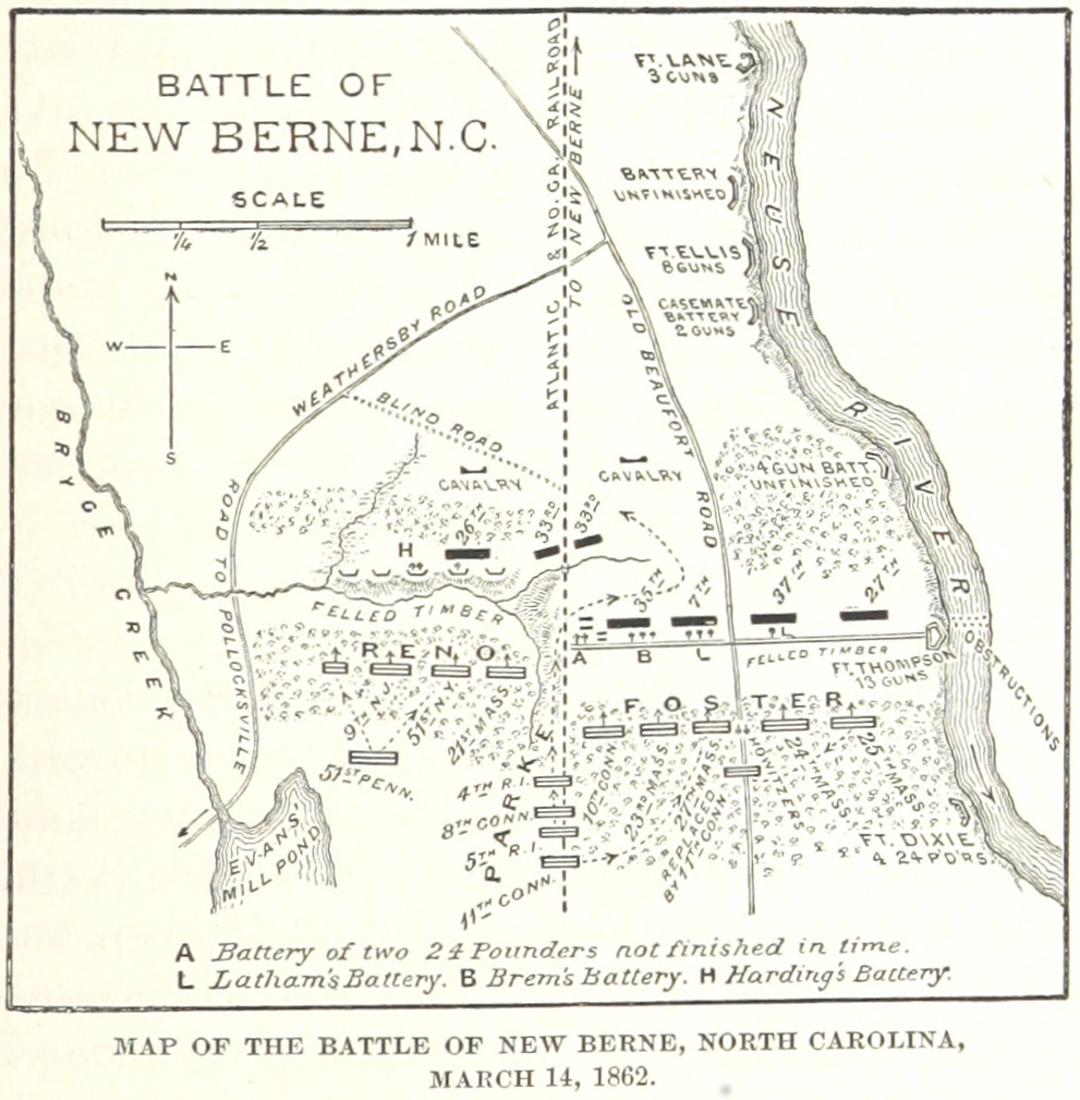 A map of the Battle of New Bern during the American Civil War. Based off of The map made for General Branch, with the addition of the Union positions.